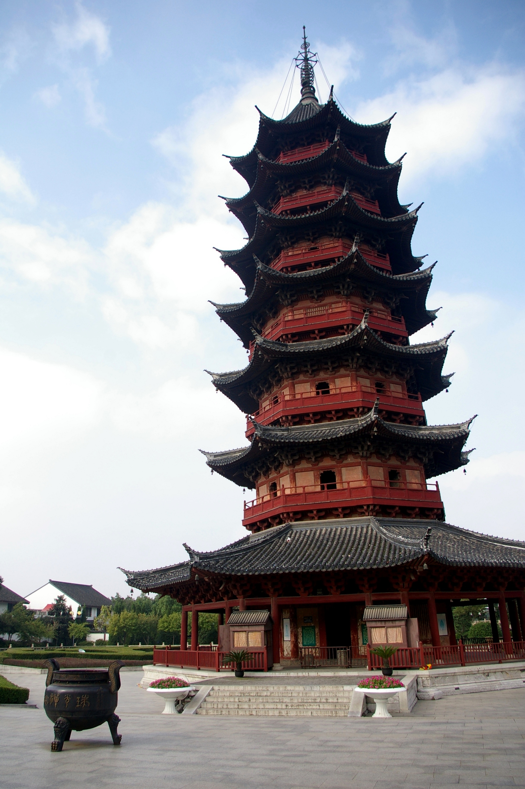 Ruiguang Pagoda in Suzhou